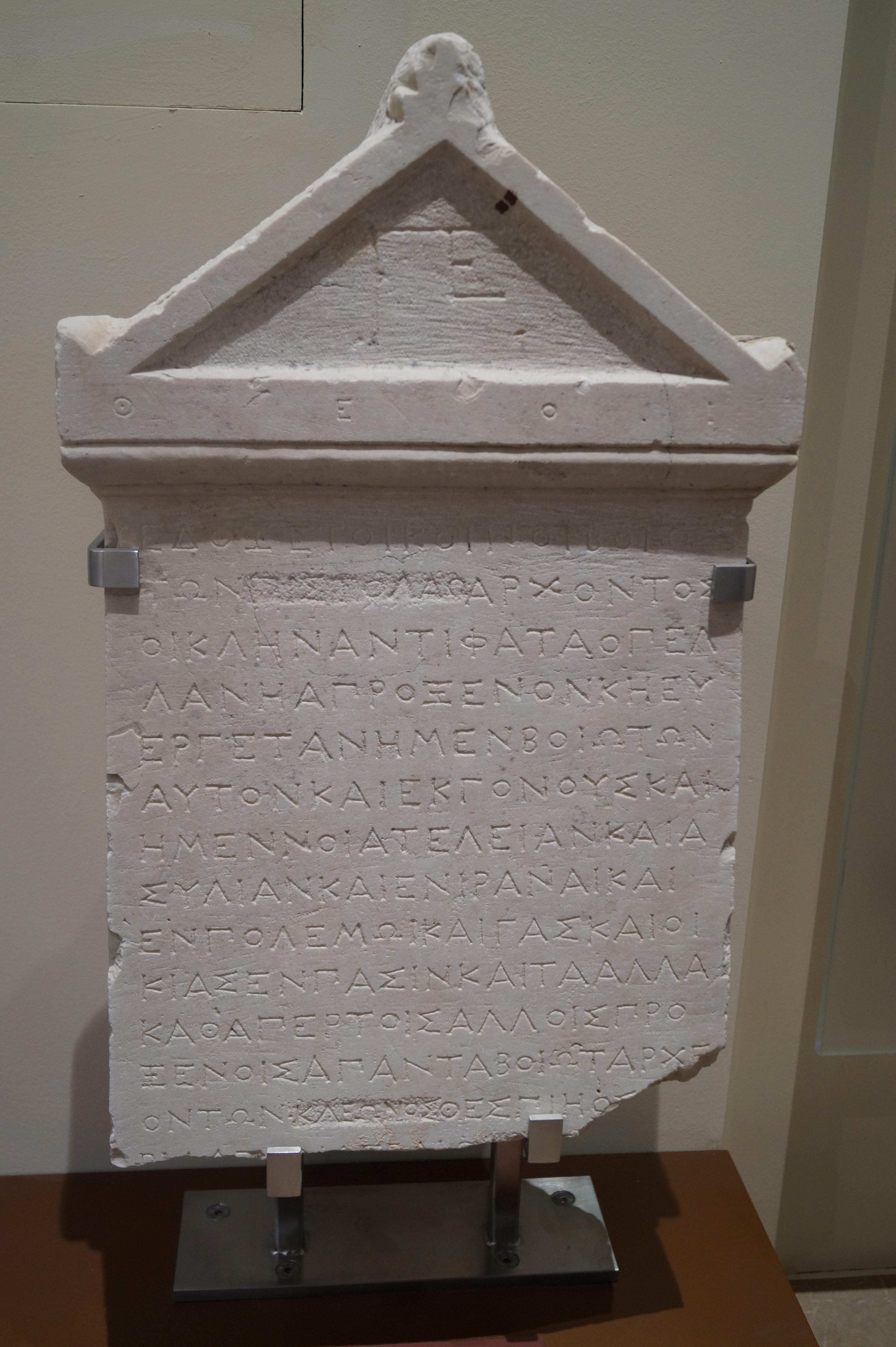 Archaeological Museum of Thebes: Proxeny decree from Onchestus.